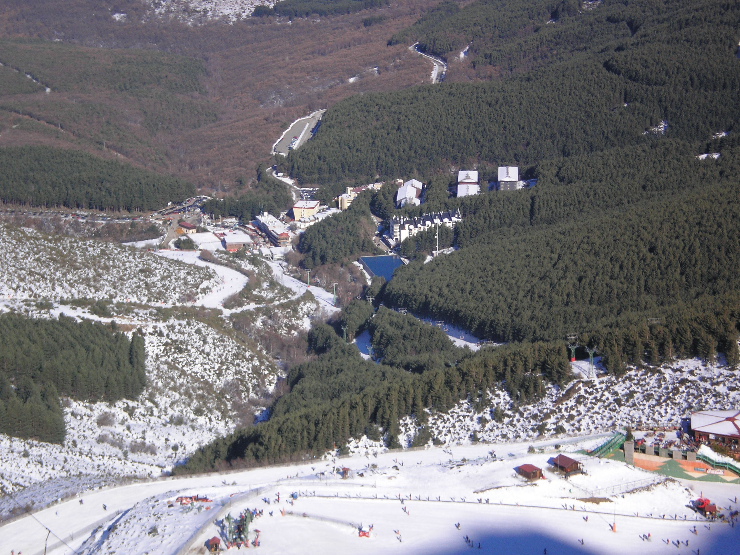 Ski Resort of La Pinilla, Segovia, Spain.